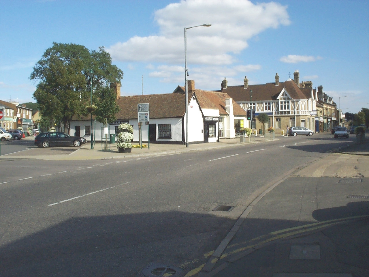 Sandy town square and High Street (on the right).